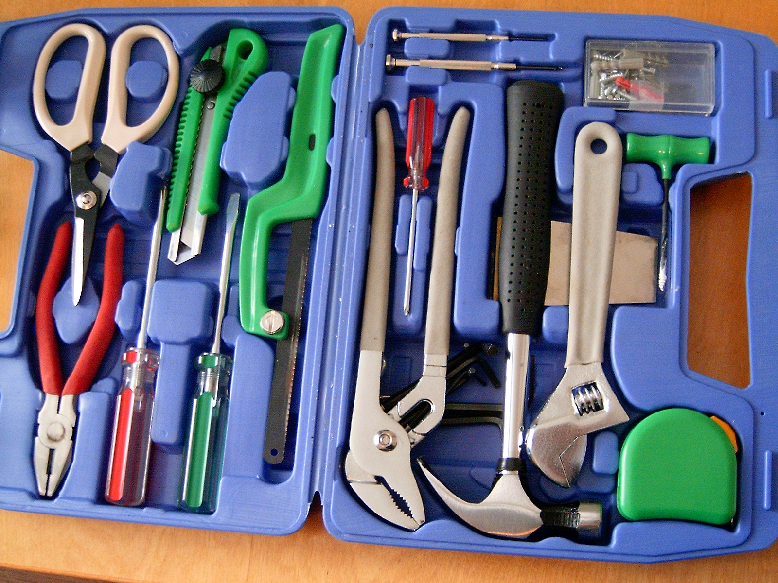 A toolbox, from Biltema)